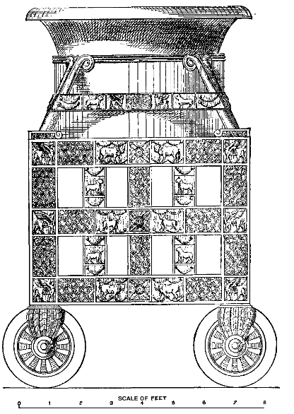 An illustration from the Encyclopaedia Biblica, a 1903 publication which is now in the public domain. Fig. 6 for article "Temple". Image of a brazen laver (a bronze wash-basin) corresponding to the biblical description of such things, as used at the Temple of Solomon. (Very similar interpretations are shown in the background of File:Храм I.jpg)